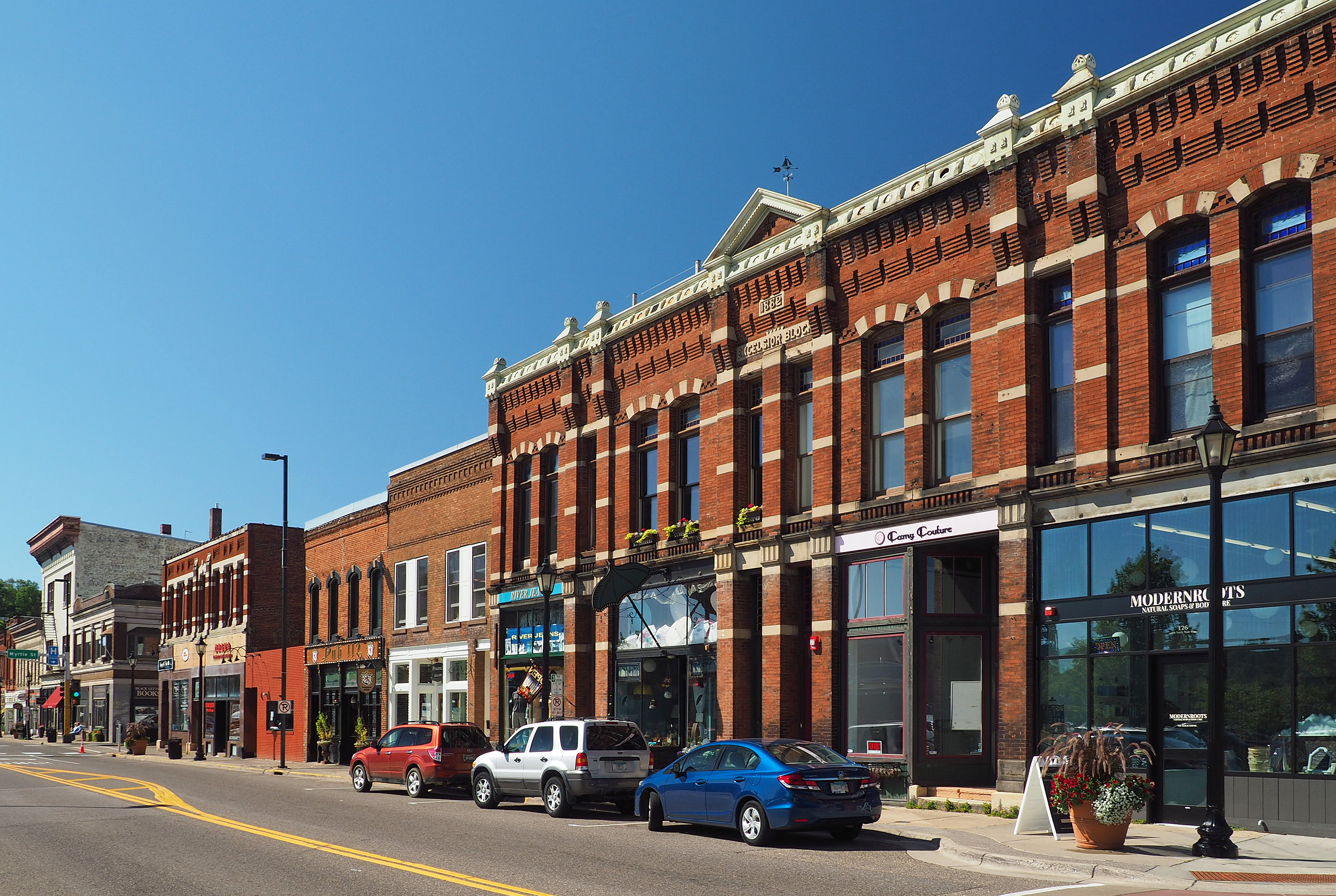 West side of Main St N from the 100 block looking southwest, downtown Stillwater, Minnesota, USA.